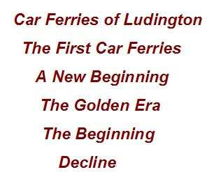 Plague names of sculpture display